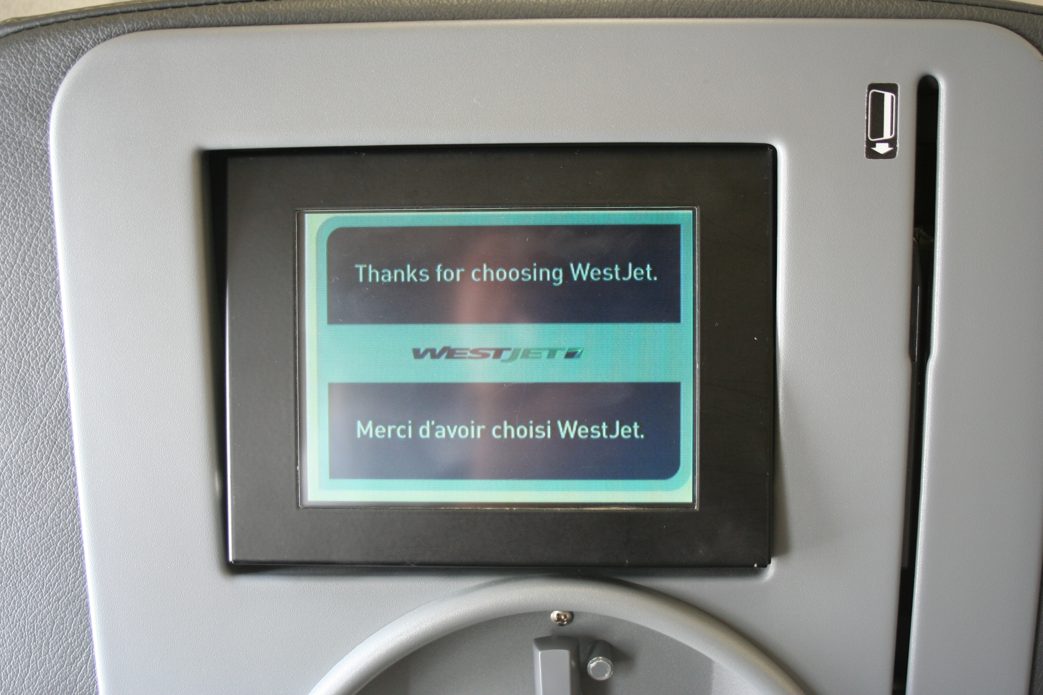 An example of Westjet's seat-back entertainment systems. This particular example was taken before take-off, and as such, the screen shows a welcome image.